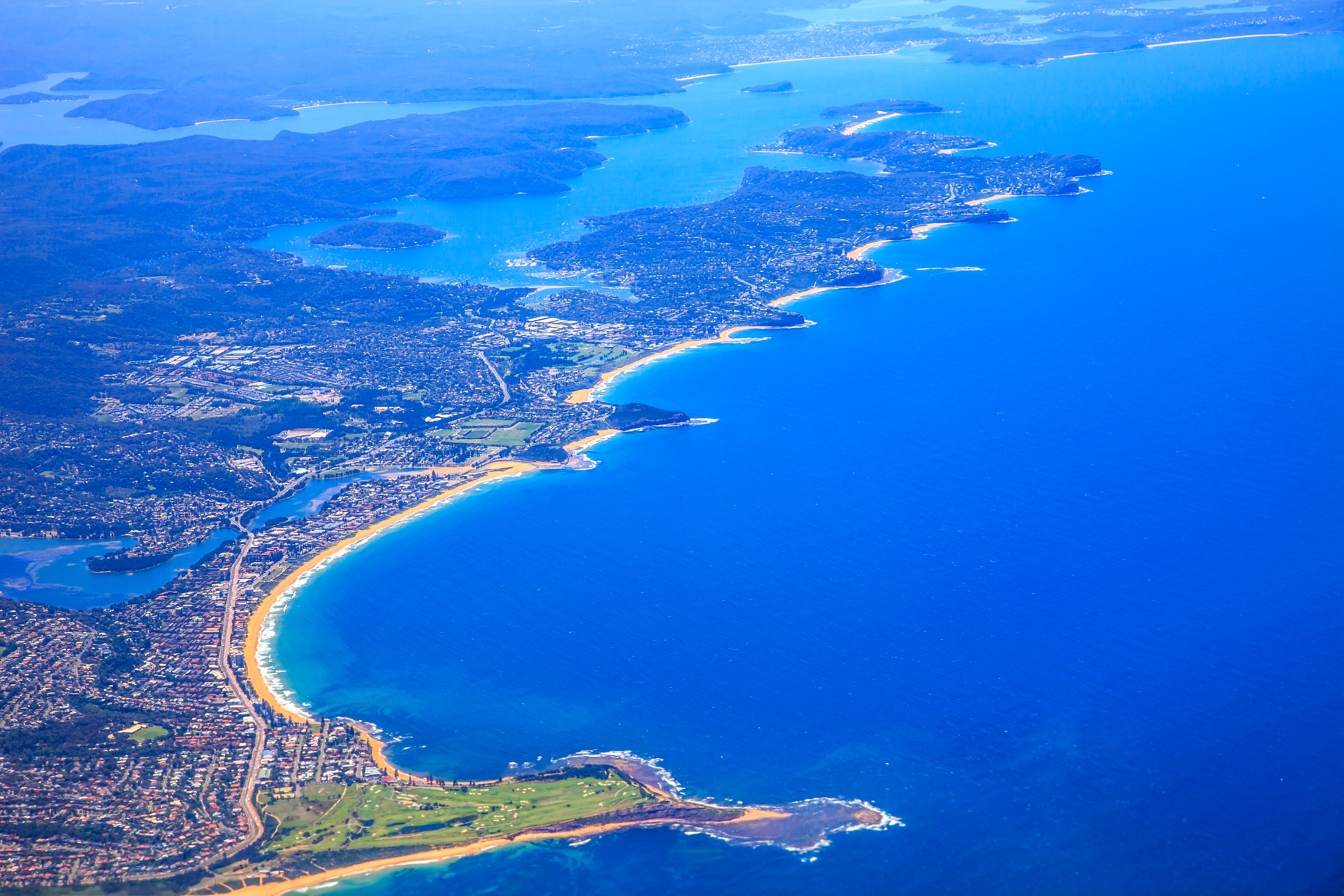 2nd leg, on this Air Canada plane...Sydney to Vancouver, BC